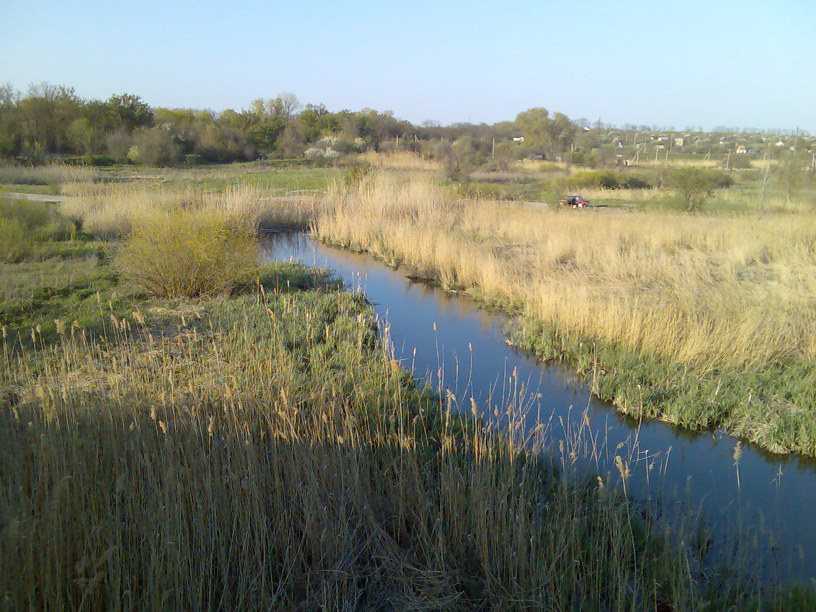 Sugokliya River near the Elgran.